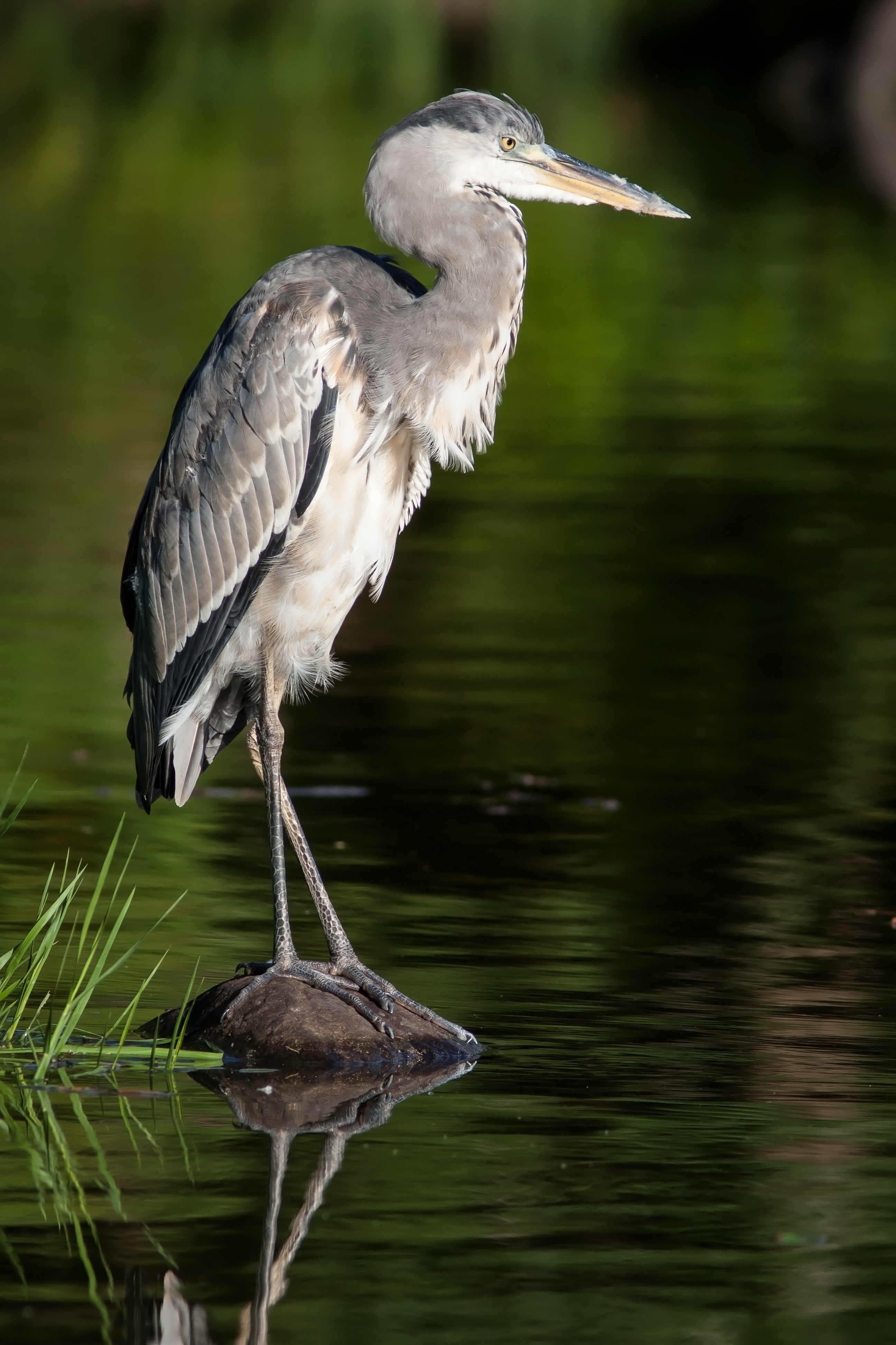 Grey Heron (Taken at Keitakuen.)